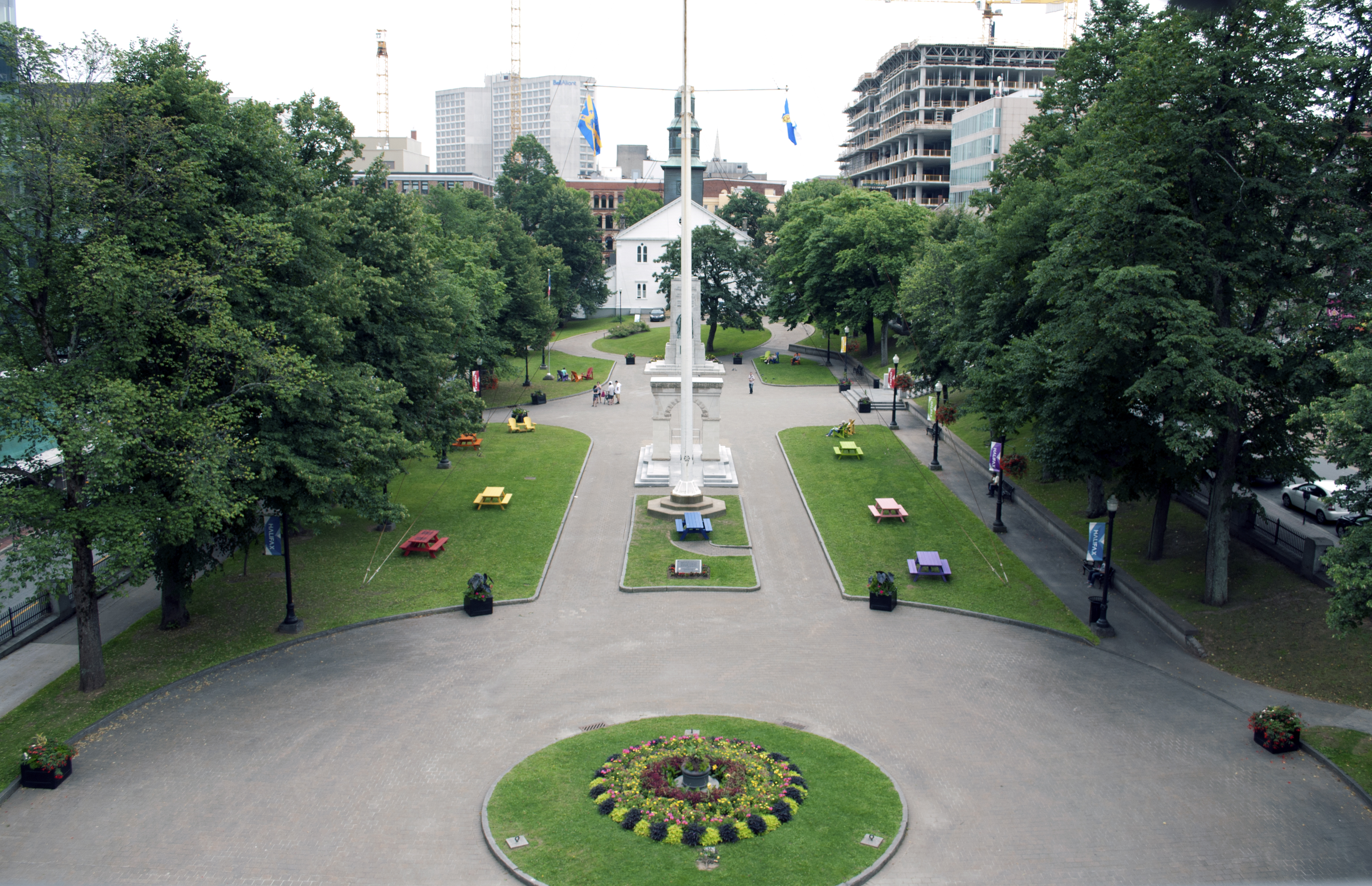 Looking south from City Hall.